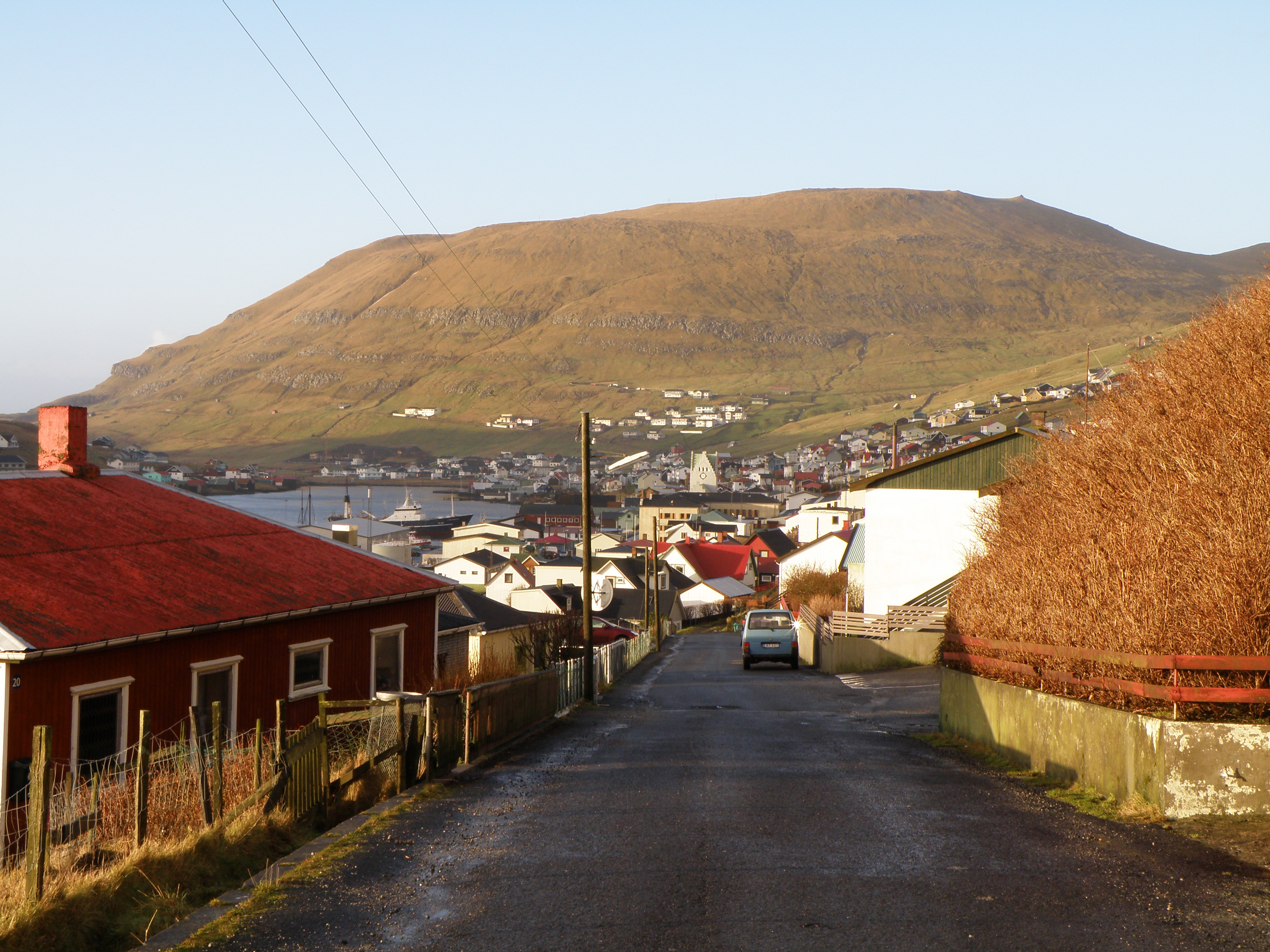 The mountain in the bottom of the photo is Gjógvaráfjall in Vágur, Suðuroy, Faroe Islands. The mountain is 345 meters high.